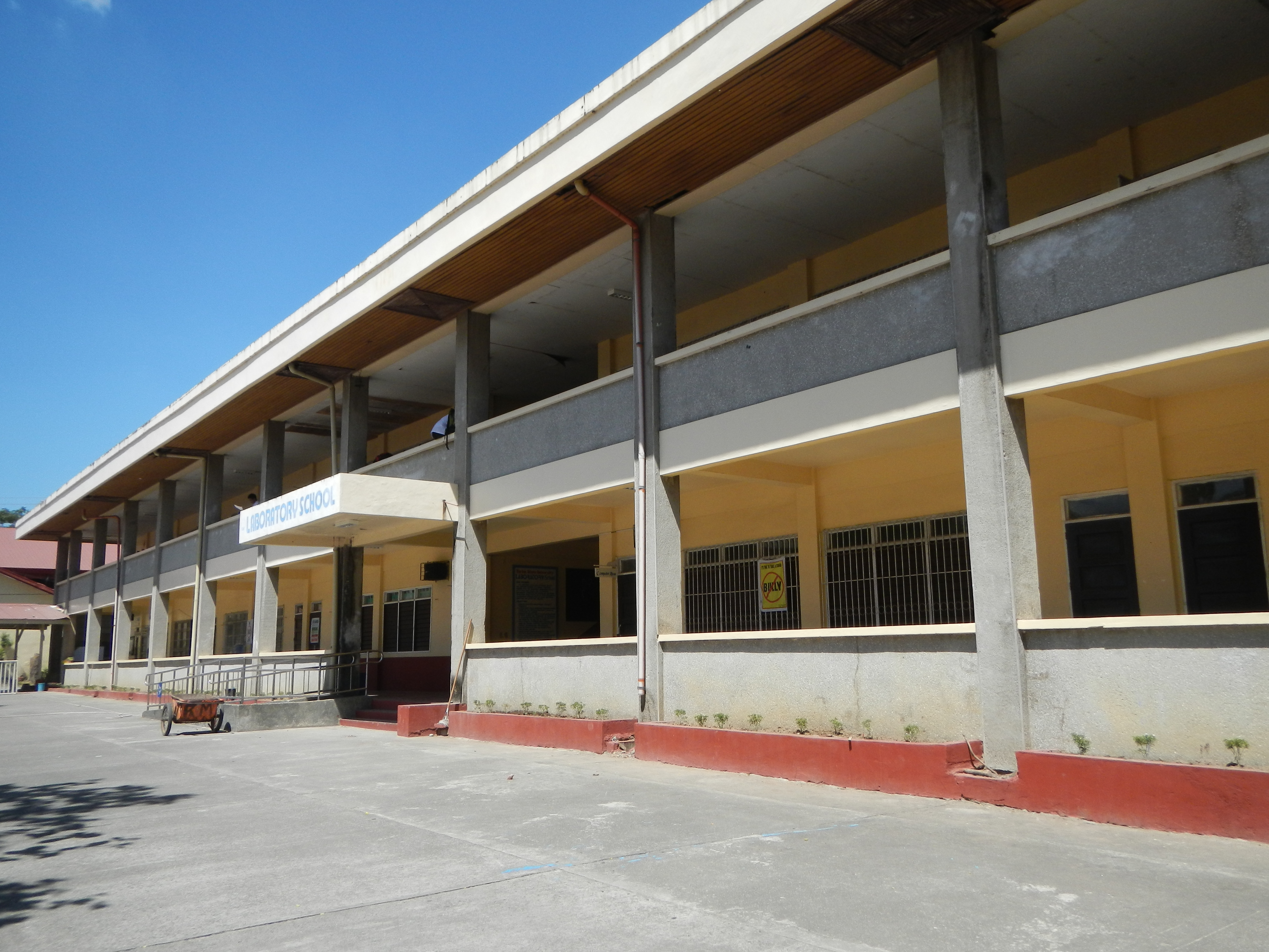 Tarlac State University – Laboratory School, Lucinda Campus, San Sebastian Tarlac City.